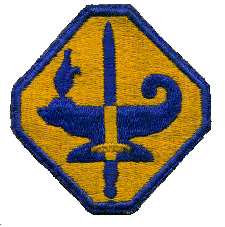 Insignia of the U.S. Army Specialized Training Program. The lamp of knowledge suggests academic learning. The sword represents the military profession.